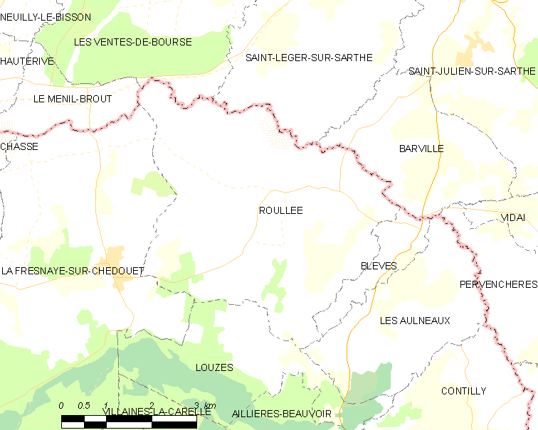 Map of French municipality